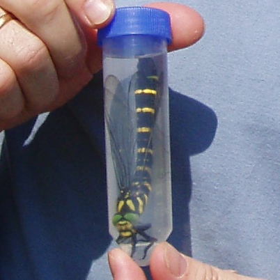 Cordulegaster heros